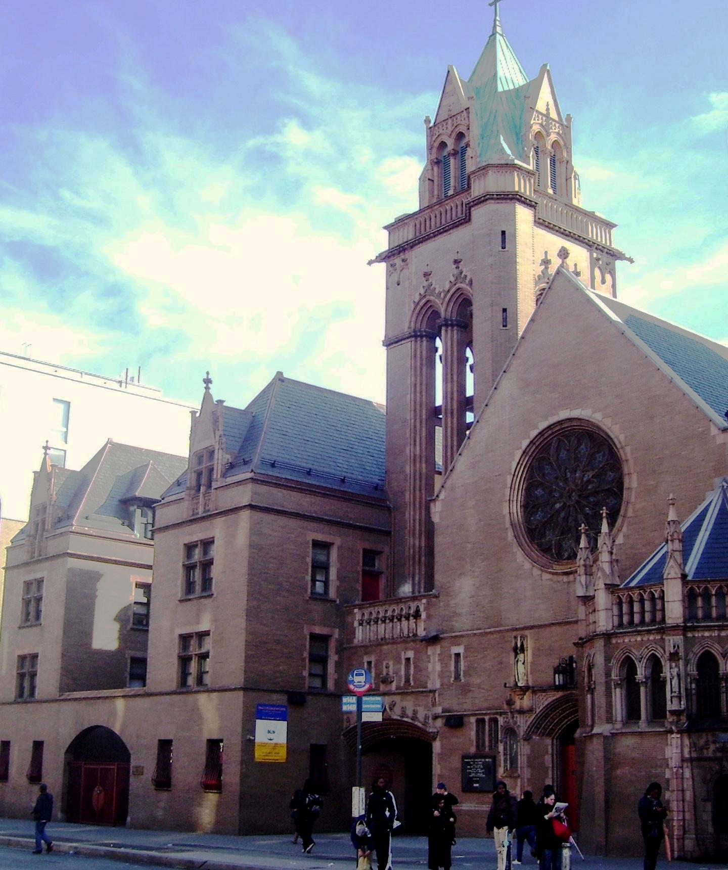 The Church of the Immaculate Conception at 406-412 East 14th Street in the East Village neighborhood of Manhattan, New York City were built in 1894-96 as Grace Chapel and Grace Hospital.